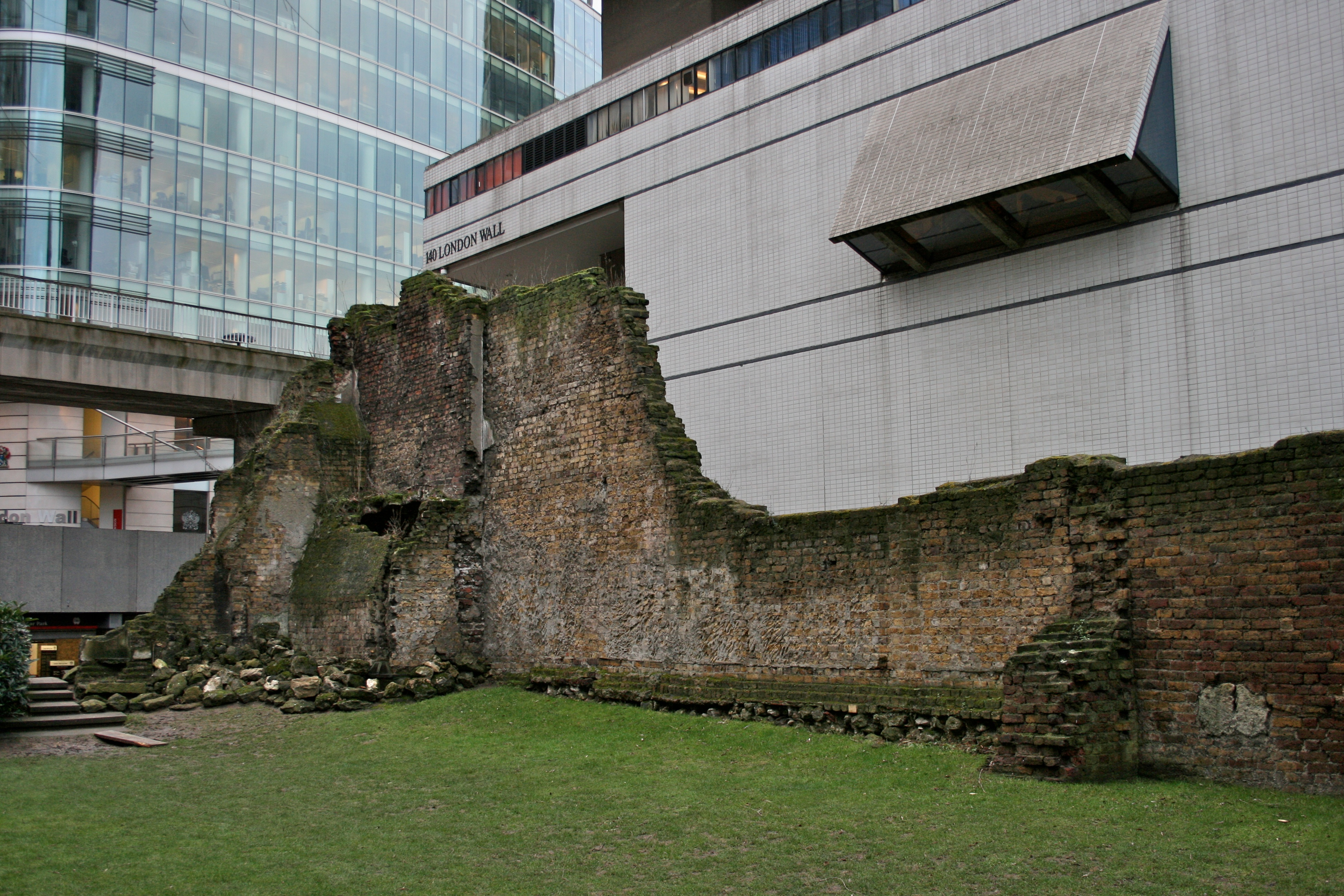 London wall outside the Museum of London. The Worshipful Company of Barbers - Herb Garden.